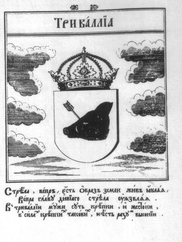 Coat of Arms of Triballia. Stemmatographia by Hristofor Zhefarovich (1741).